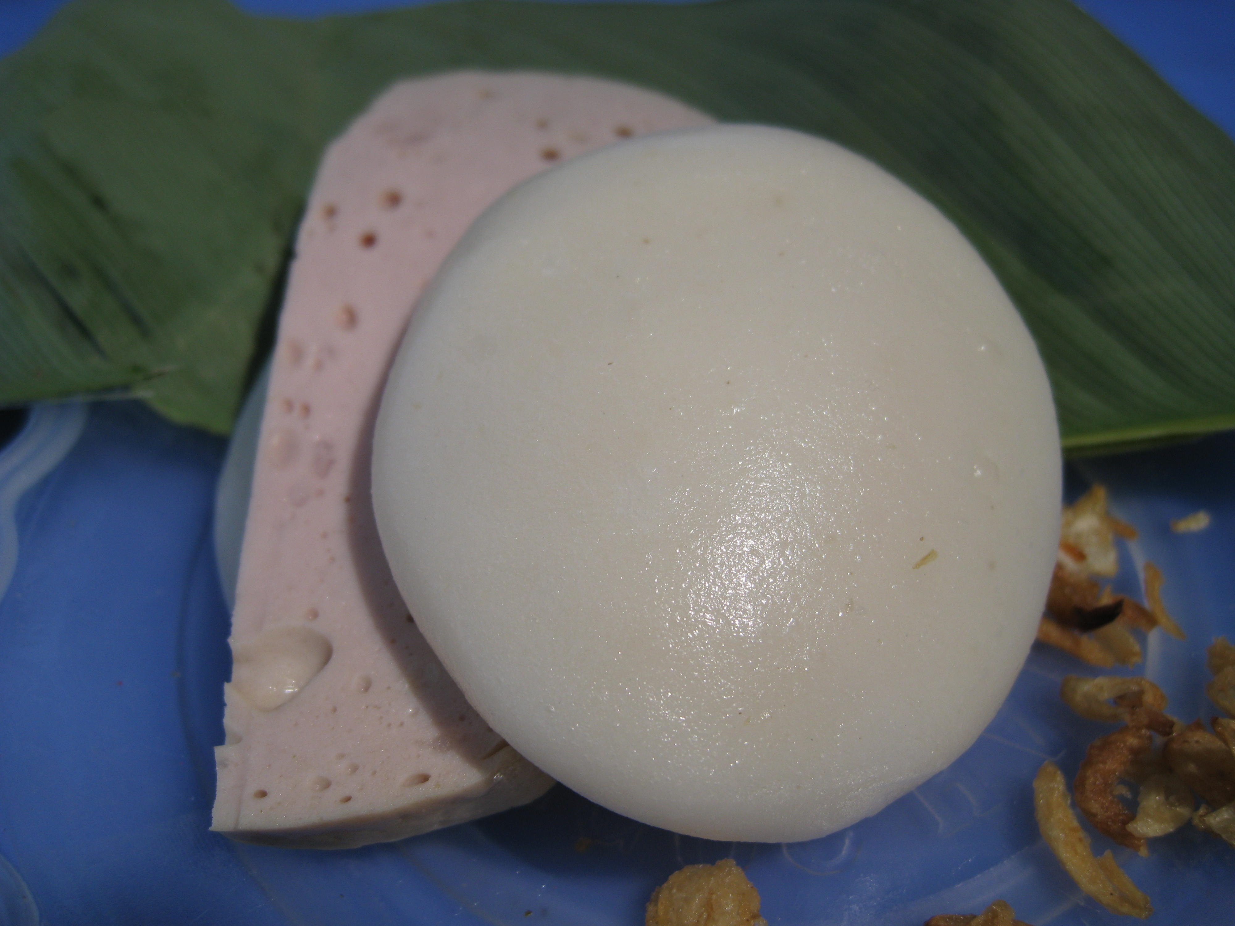 white, flat, round glutinous rice cake with tough, chewy texture served with Vietnamese sausage (Giò lụa)